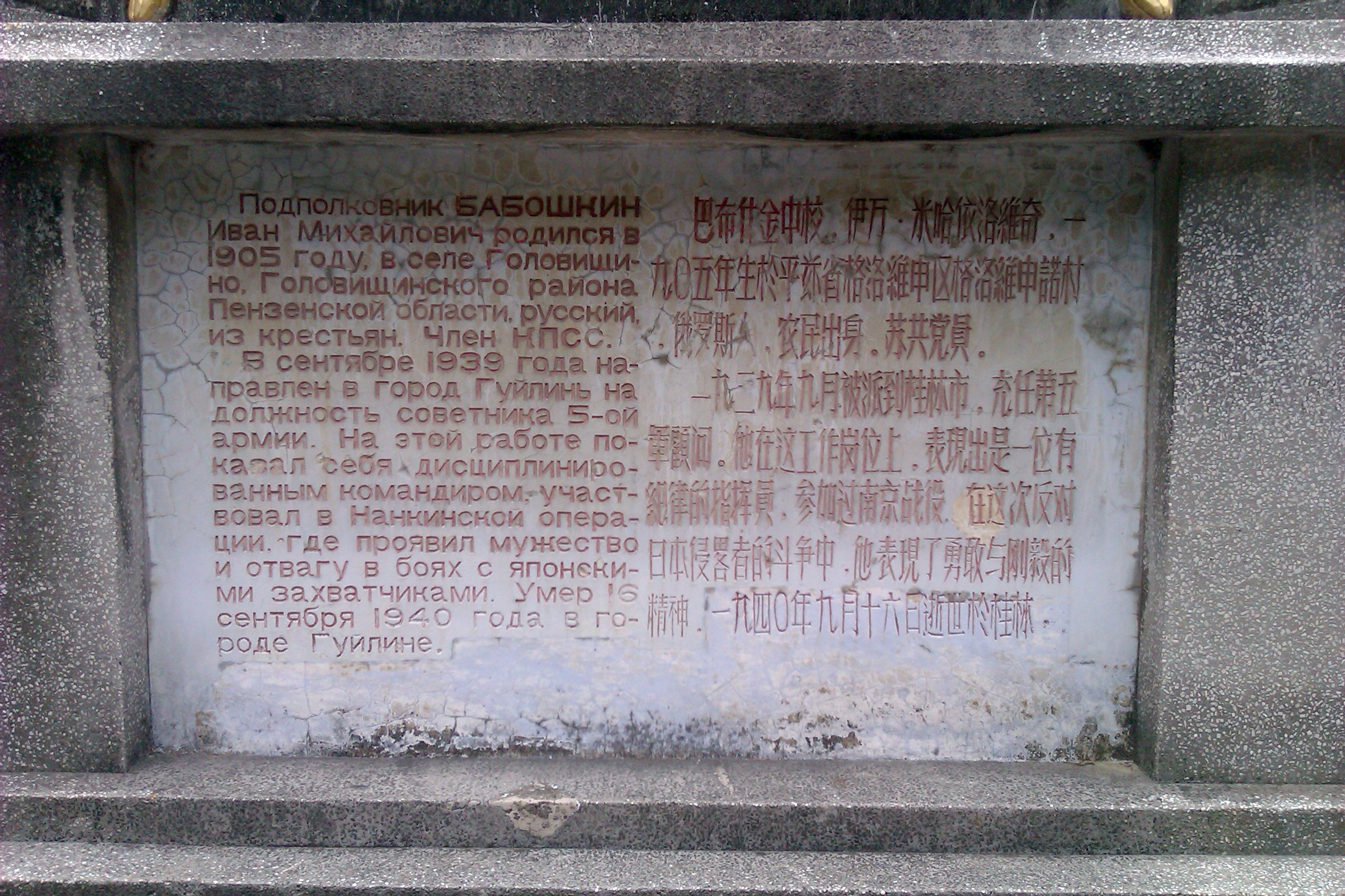 The introduction of the Tomb of Babyshkin